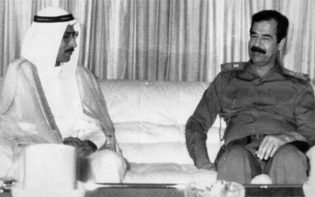 Iraqi President Saddam Hussein (right) welcomes Colonel Alaa Hussein Ali, Prime Minister of Kuwait Provisional Free Government for unification talks in Bagdad on 7th of August 1990